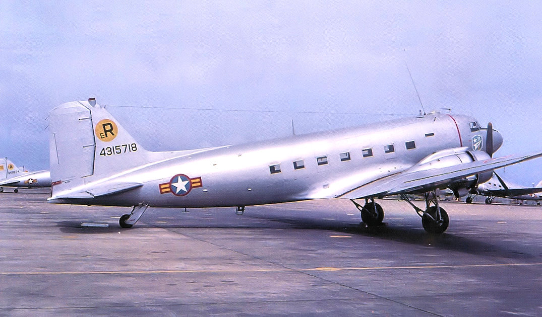 South Vietnamese Air Force Douglas C-47A-90-DL 43-15718 415th Transport Squadron. These C-47s remained in natural aluminum finish thoughout the war. Mostly used for passenger transports.